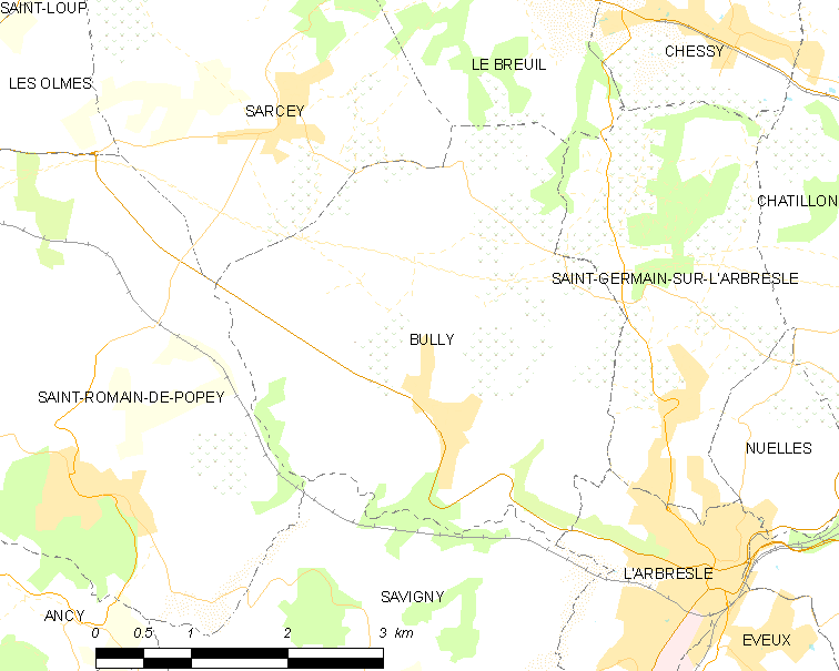 Map of French municipality